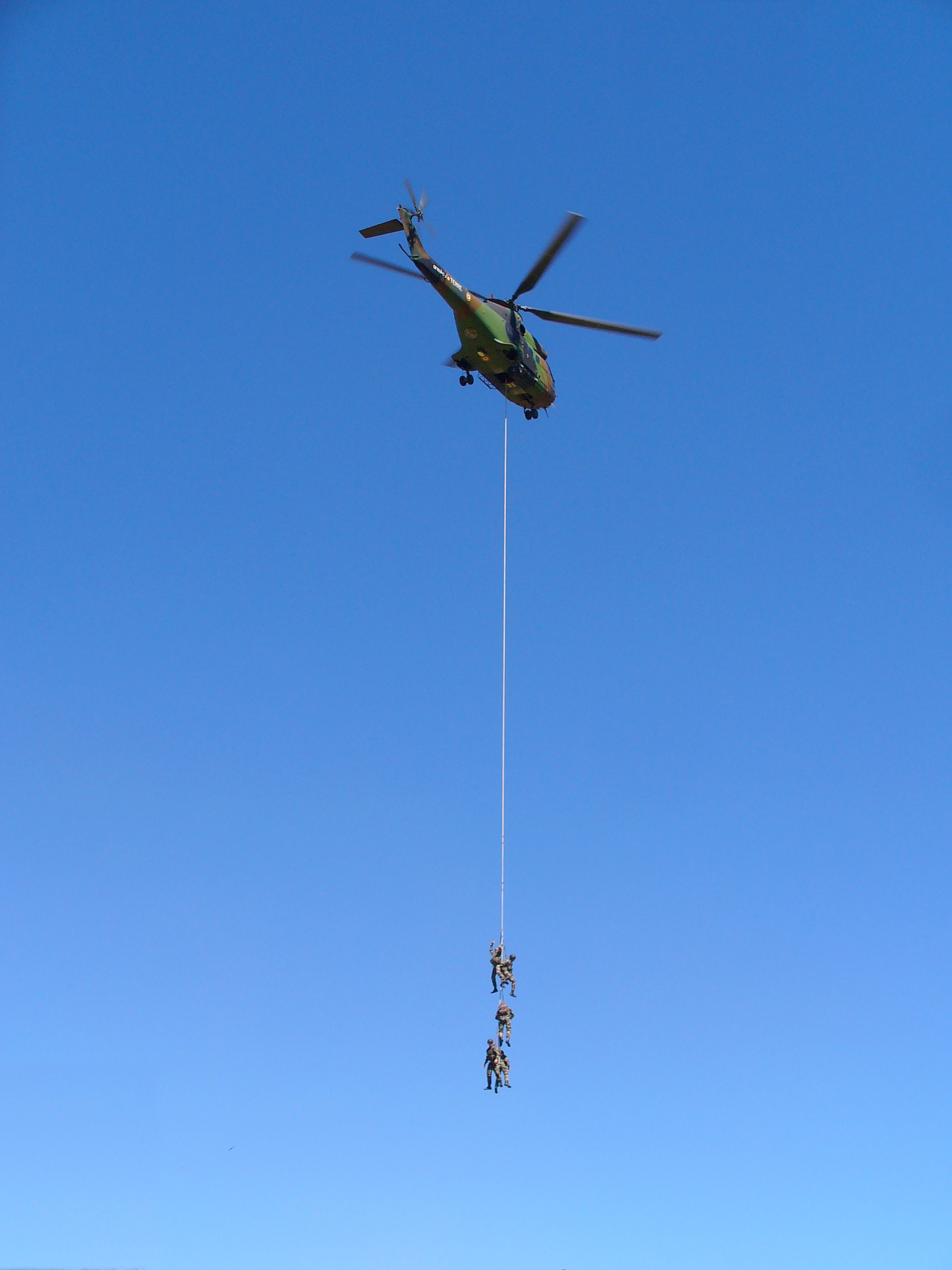 French Army Helicopter SA 330 Puma, Mt. Louis, France.